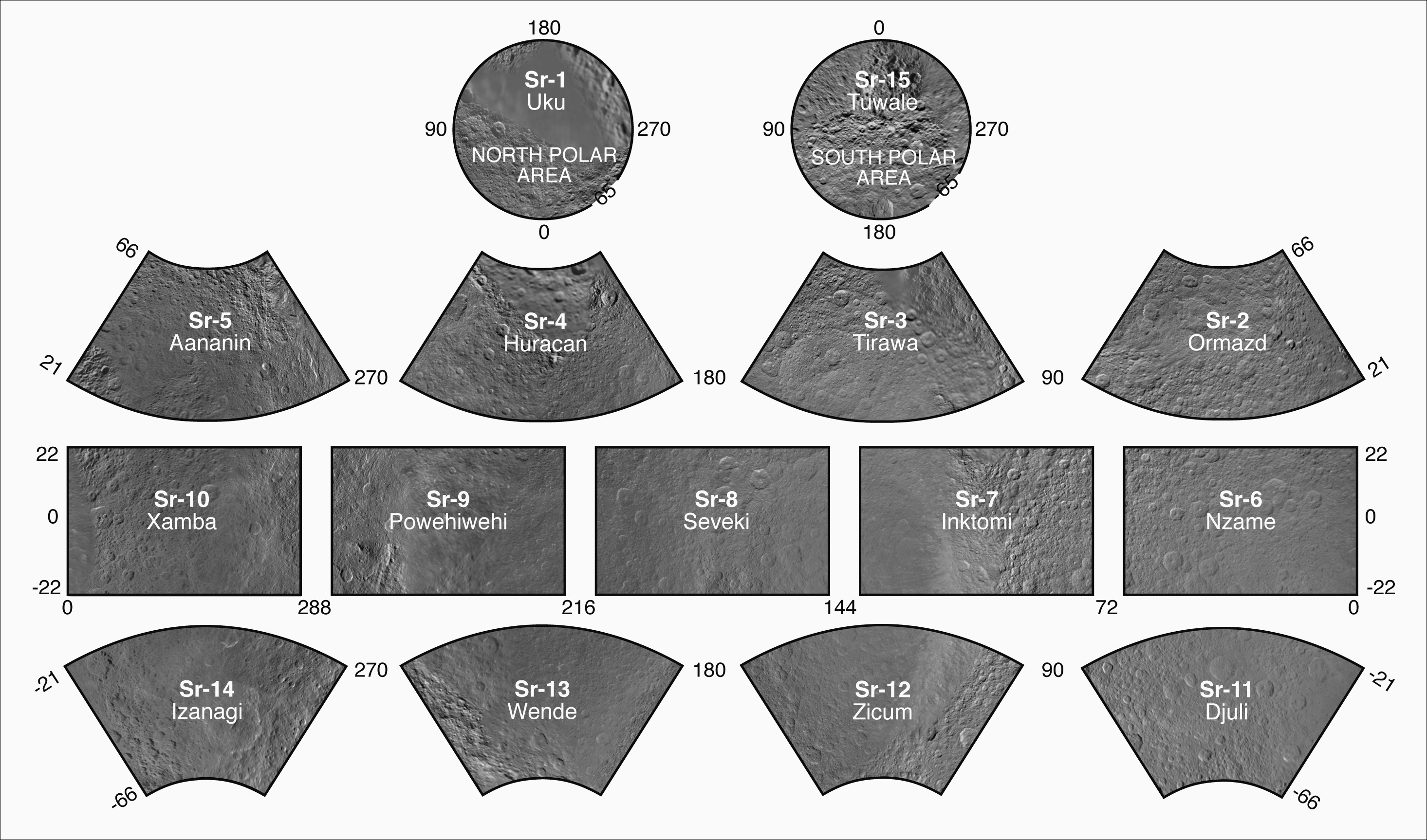 a complete set of cartographic map sheets from a high-resolution atlas of Saturn's moon Rhea, made from data obtained by the imaging cameras on NASA's Cassini spacecraft. PIA 12806